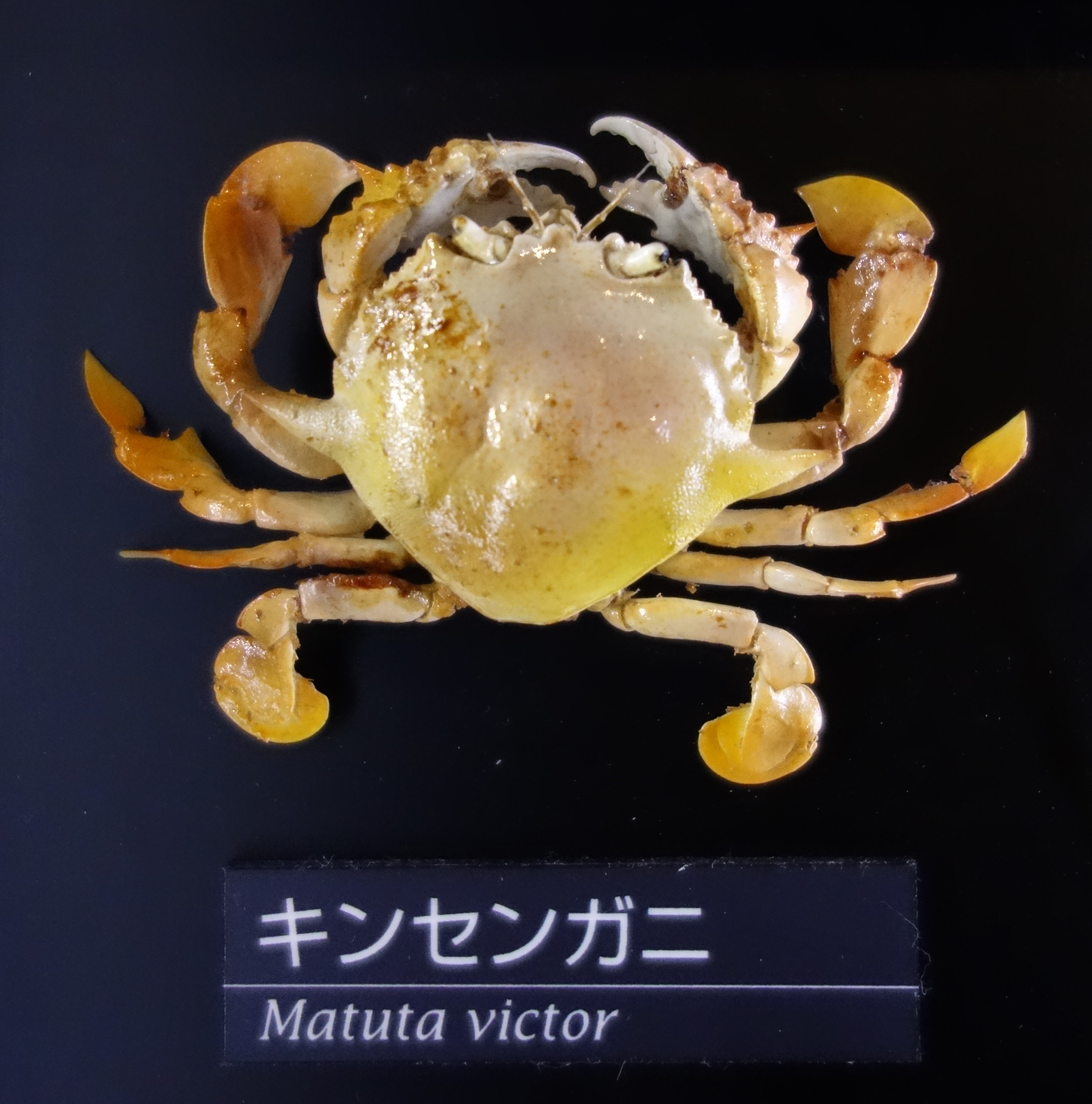 Exhibit in the National Museum of Nature and Science, Tokyo, Japan.